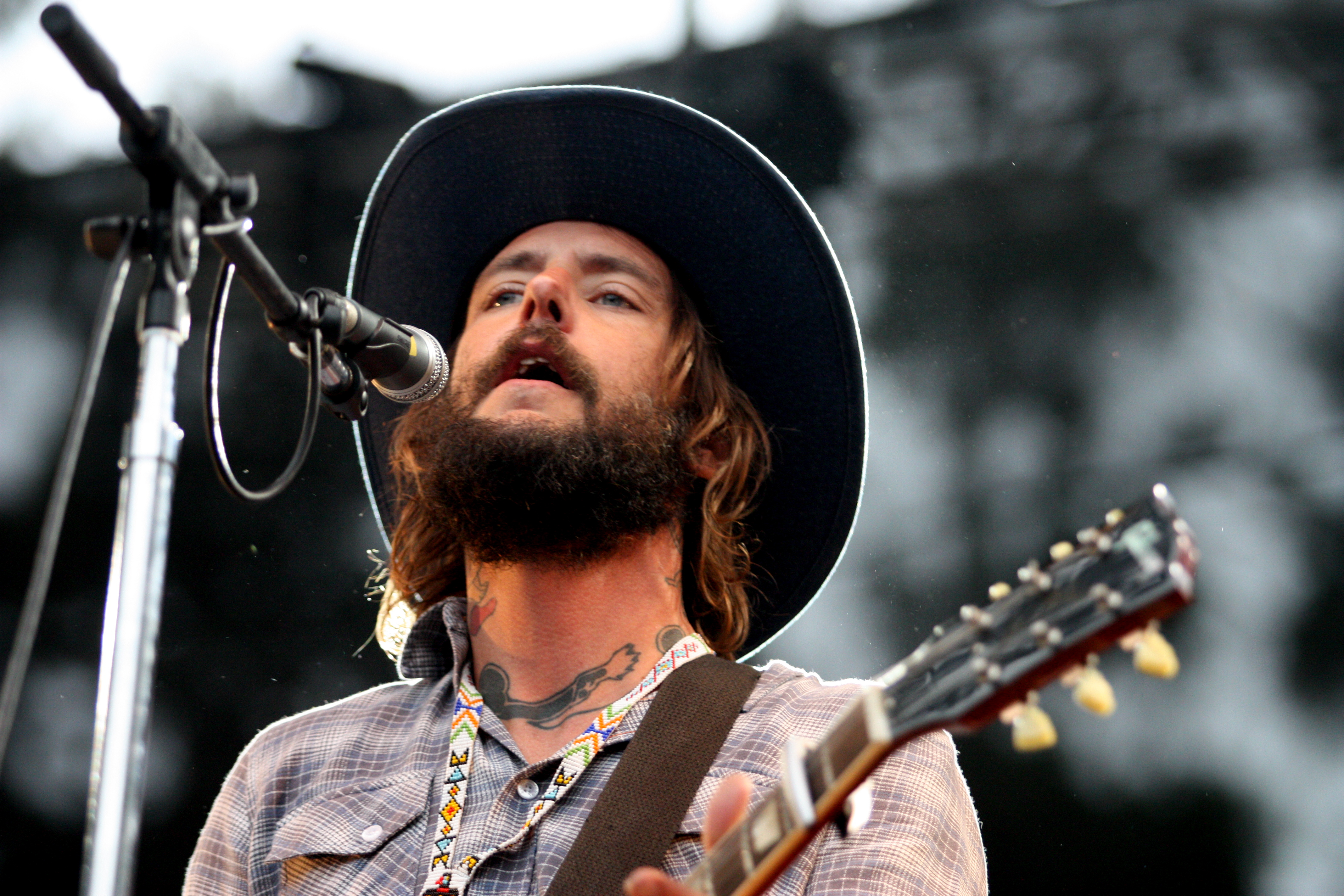 Band of Horses at the Outside Lands 2009